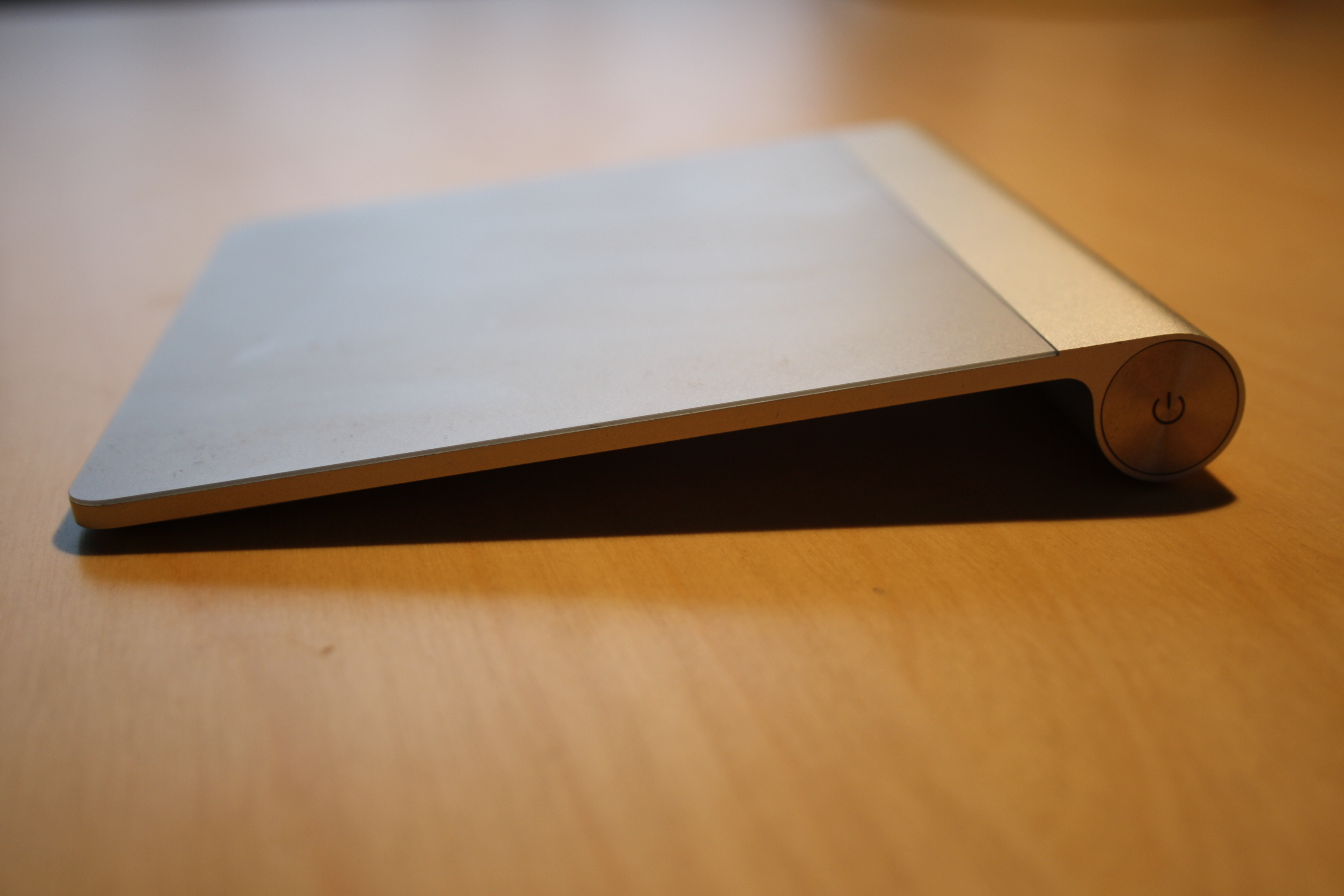 The Apple Magic Trackpad that has a big function in Mac OS X Lion.